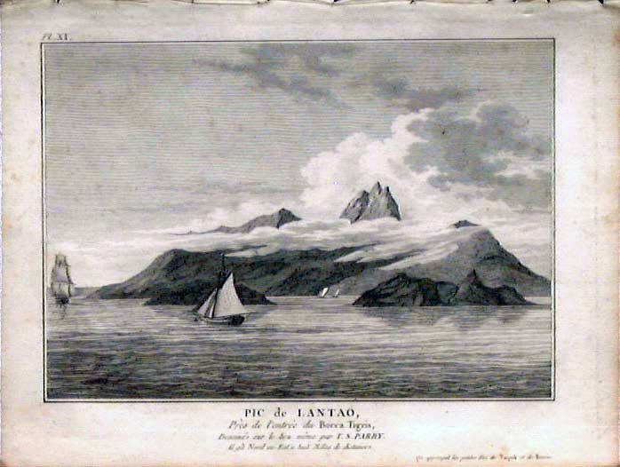 CAPT. JOHN MEARES “Pic de Lantao Près de l'entrée du Bocca Tigris”. Paris c. 1794. B/W. 7½ × 9¼. Fine engraved view from the French Edition of Meare's "Voyages," shows the island of Lantao situated at the mouth of the Canton River, to the west of Hong Kong & opposite Macao. The view was drawn on the spot by one of Meares' crew, T. S. Parry. This peaceful view, with the islands twin peaks & sailing vessels below, is one of the earliest views of Lantao.